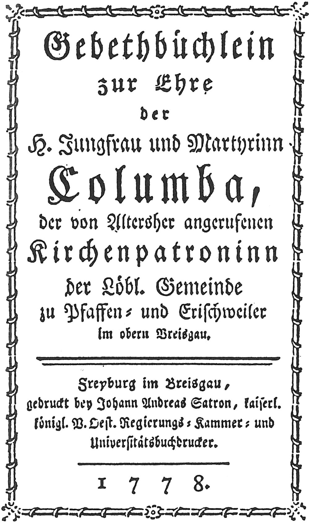 TItle page of prayer book to saint Columba, from the parish church St. Columba in Pfaffenweiler, Baden-Württemberg, Germany, AB 1778